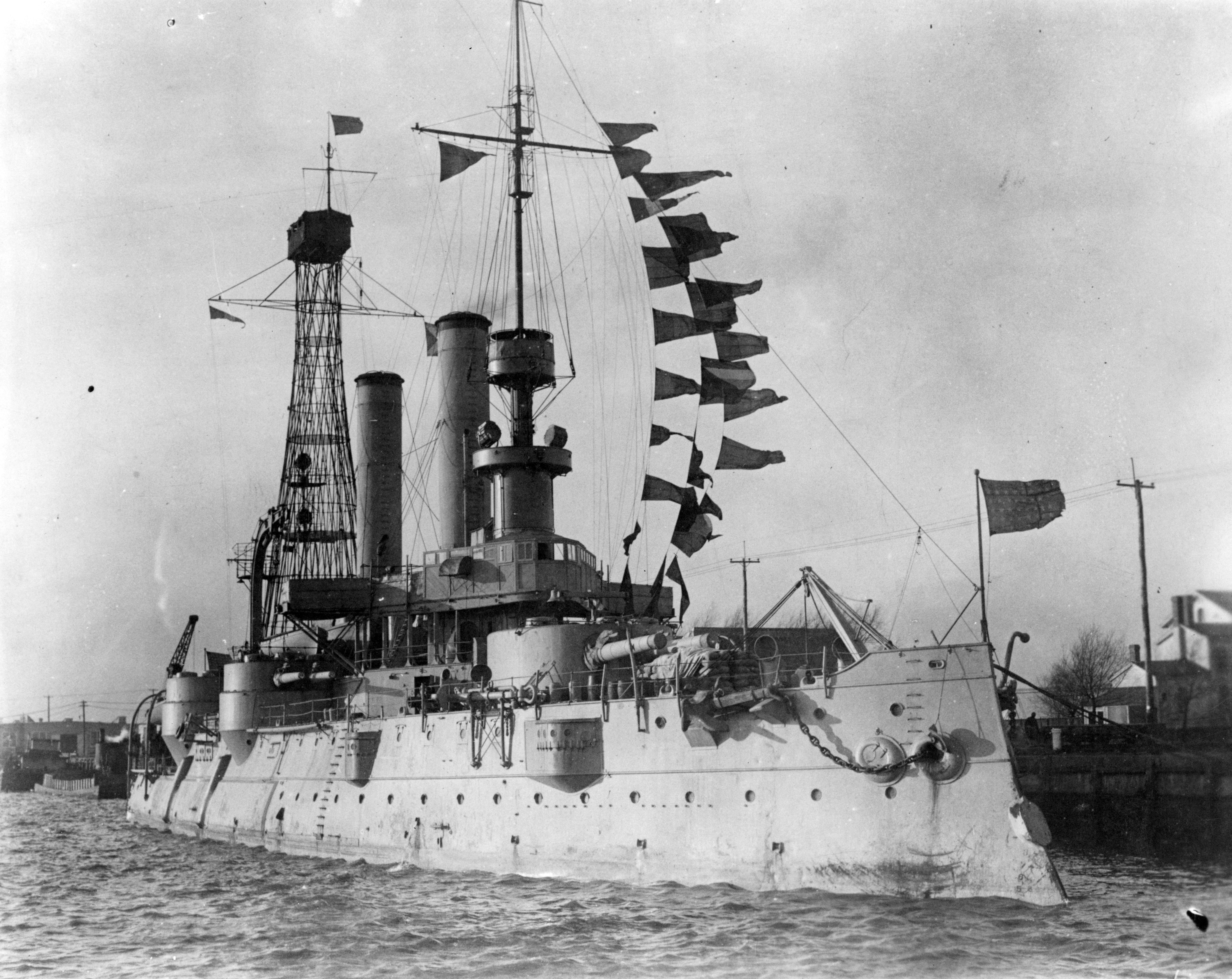 (Battleship # 4) In the Reserve Basin at the Philadelphia Navy Yard, Pennsylvania, January 1919. U.S. Naval History and Heritage Command Photograph.